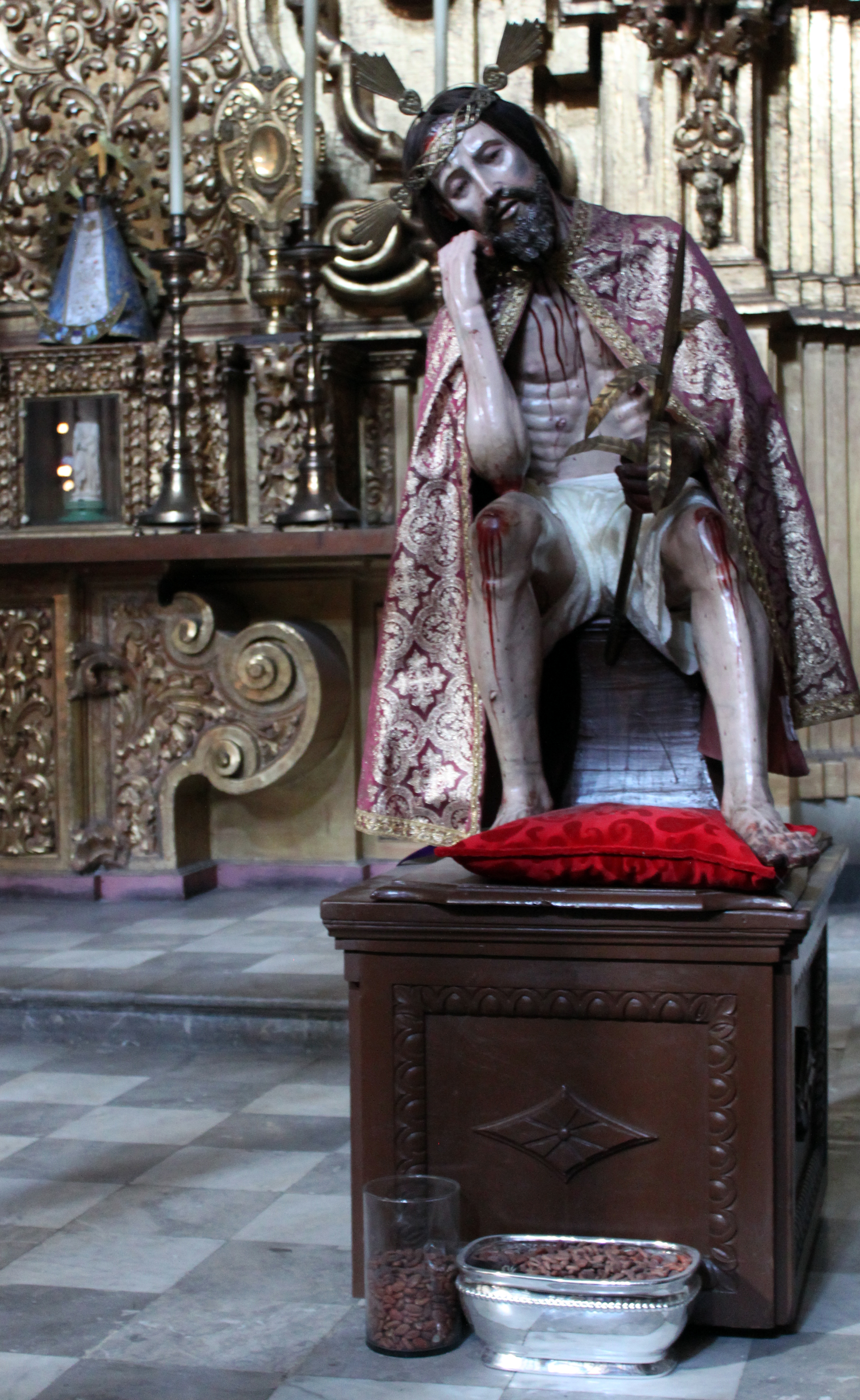 Lord of the Cacao beans — colonial Mexican sculpture from 16th century. In the Metropolitan Cathedral of Mexico City.